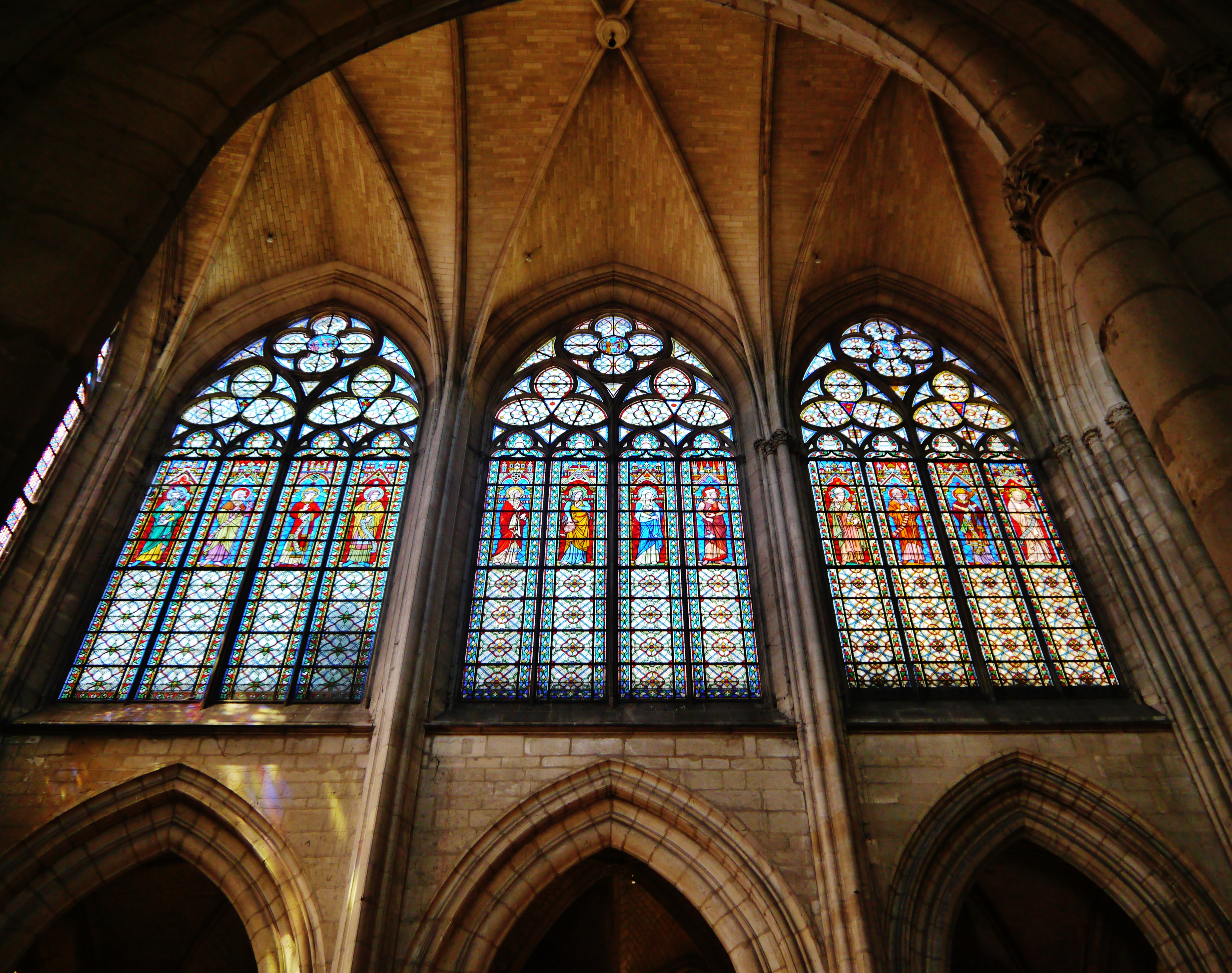 Celestory of the Basilica of St. Urban, Troyes, Département of Aube, Region of Champagne-Ardenne (now Grand East), France